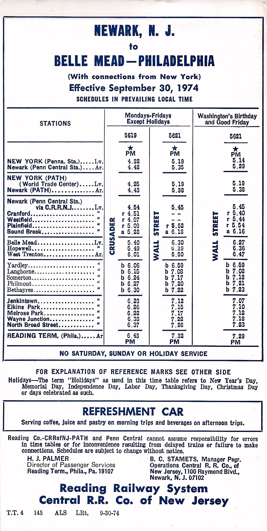 Passenger Schedule (eff. 1974-09-30) of Reading Railway and Central of New Jersey joint service between Newark, N.J. and Phila. Reading Terminal via Belle Mead, N.J. on today's SEPTA West Trenton Line and NJT Raritan Valley Line. Until the 1980s this service competed with Pennsylvania Railroad's Northeast Corridor between Philadelphia and New York.